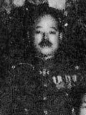 General Takuma Nishimura (1899-1951)